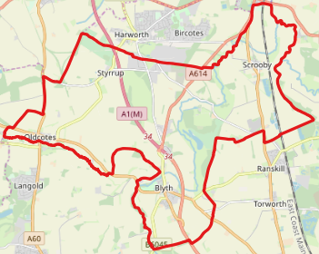 Map of the Blyth ward of Bassetlaw. This map may be incomplete, and may contain errors. Don't rely solely on it for navigation.